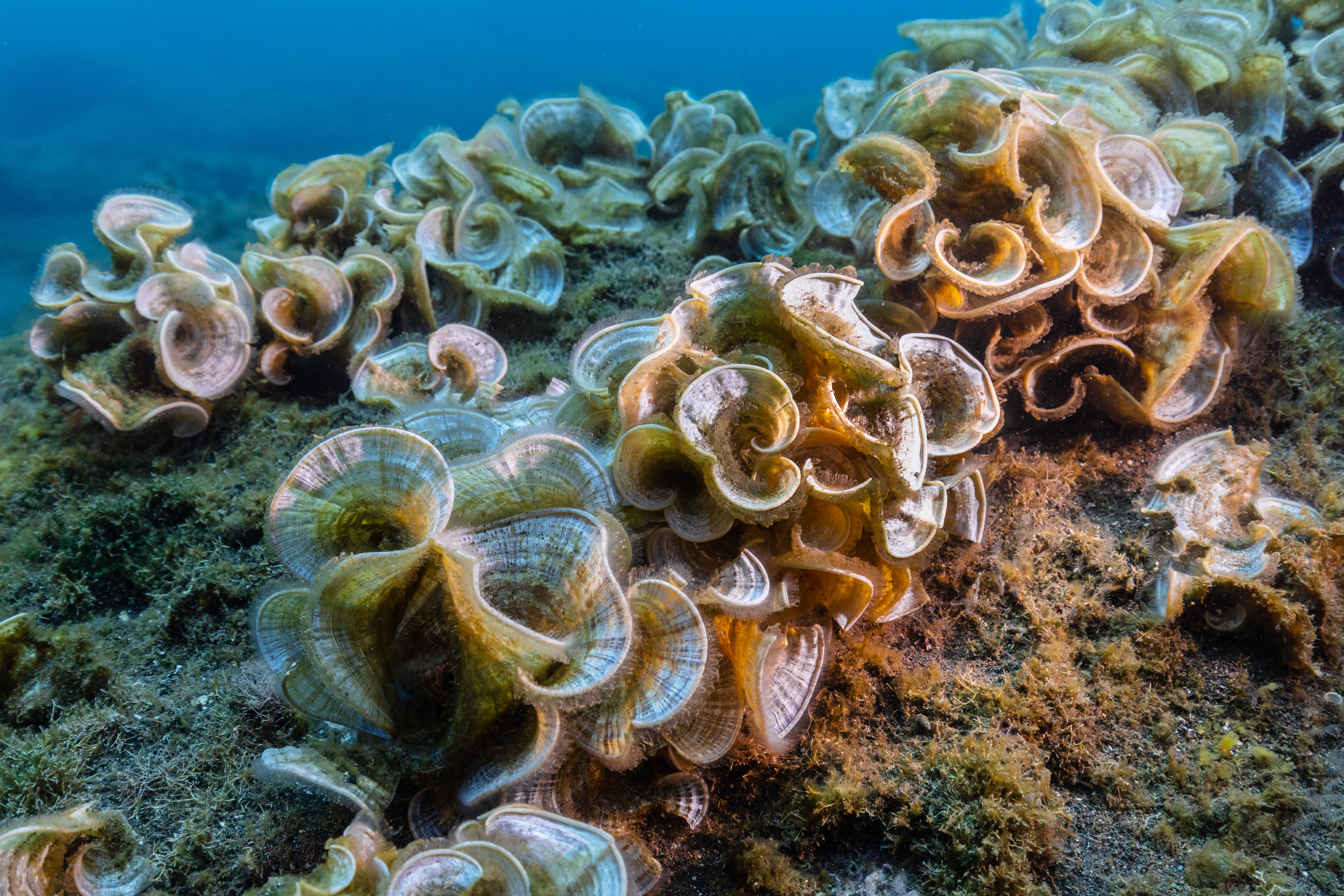 Peacock's tail (Padina pavonica), Madeira, Portugal